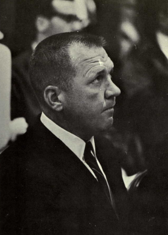 Photograph of Tommy Bartlett